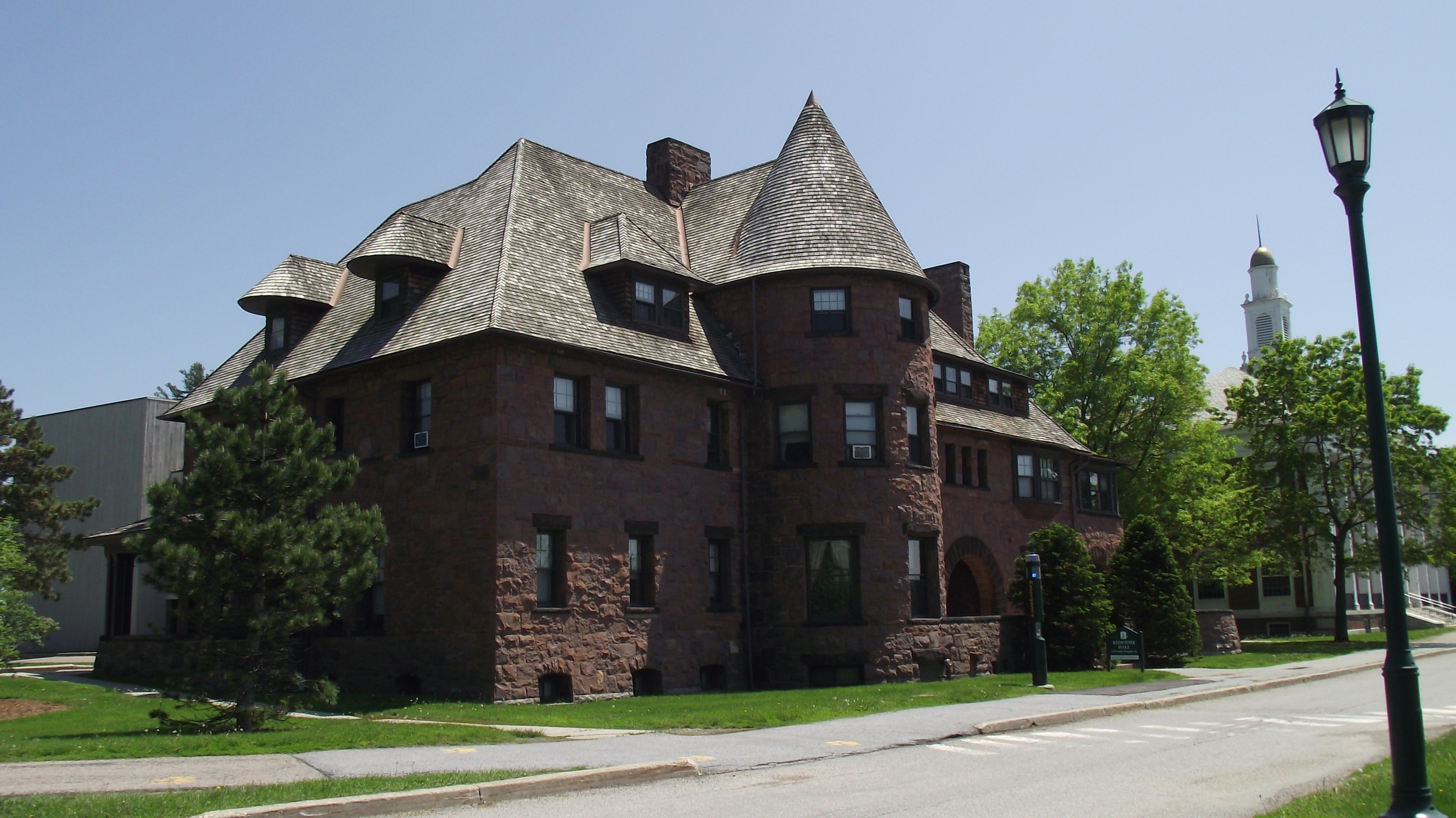 Redstone Hall, on what is known as Redstone Campus of the University of Vermont. A representation of the Redstone Historic District